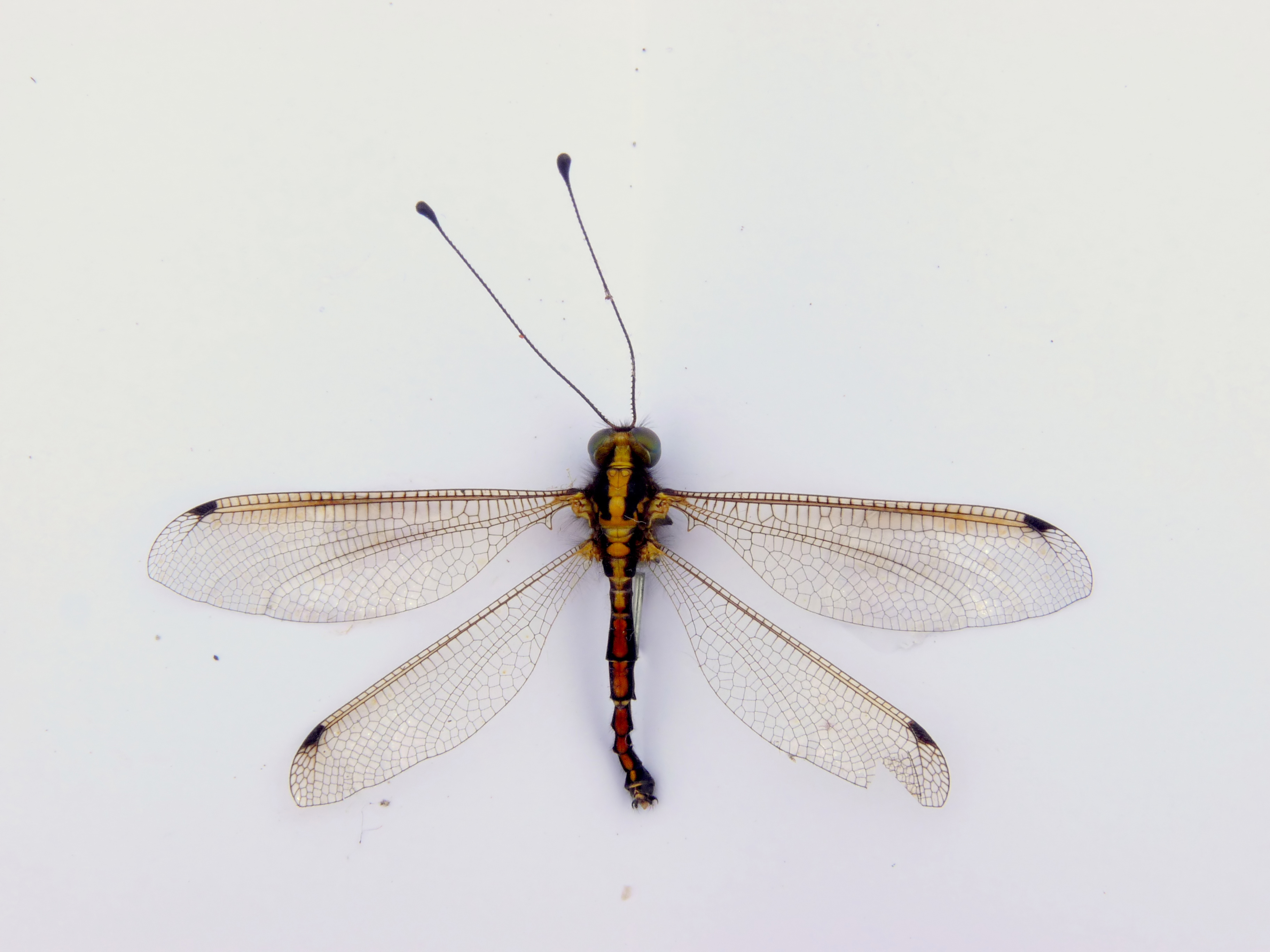 Glyptobasis sp. male. Can be Glyptobasis nigrifrons (ID by Joshua R Jones and Bijoy Joy.)